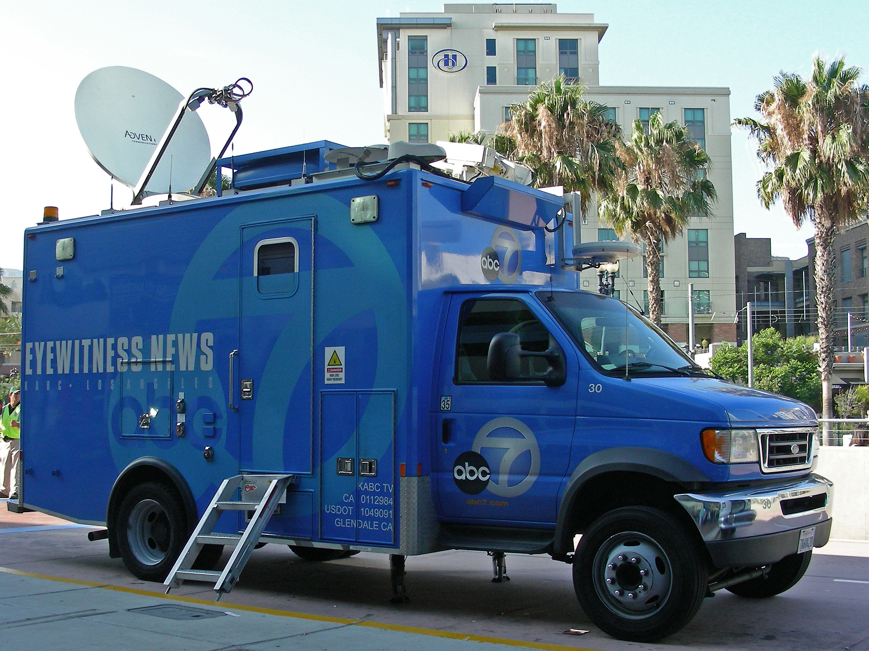 2005 Ford E-550 KABC-TV ENG van |2005 Ford E-550 KABC-TV ENG van